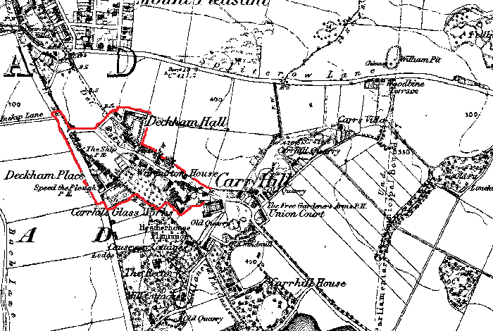 Map showing the early settlement on Old Durham Road in Deckham in 1895. The original settlement is bounded in red. Deckham Hall, the original Plough Inn (‘Speed the Plough’) and a small number of domestic property is evidenced.